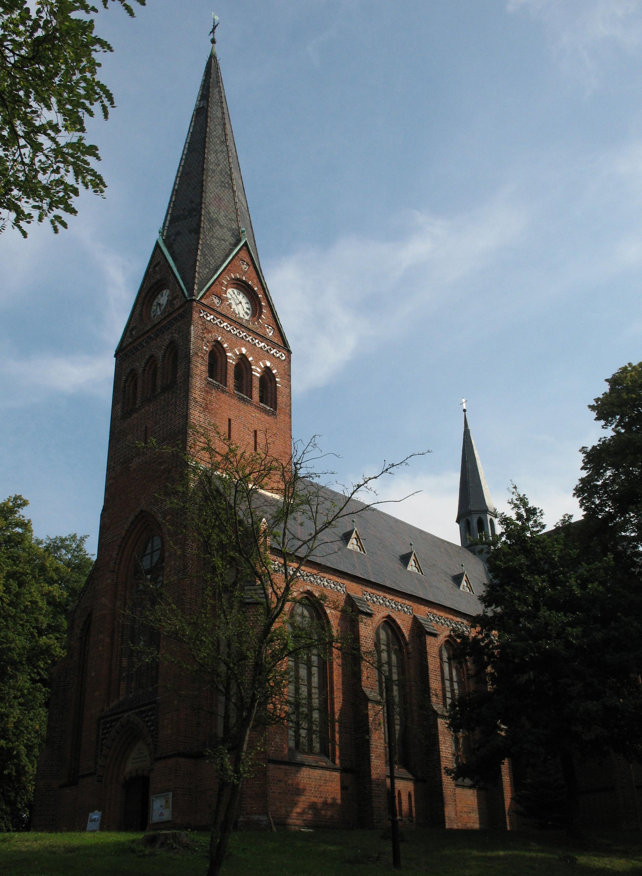 Church in Malchow in Mecklenburg-Western Pomerania, Germany